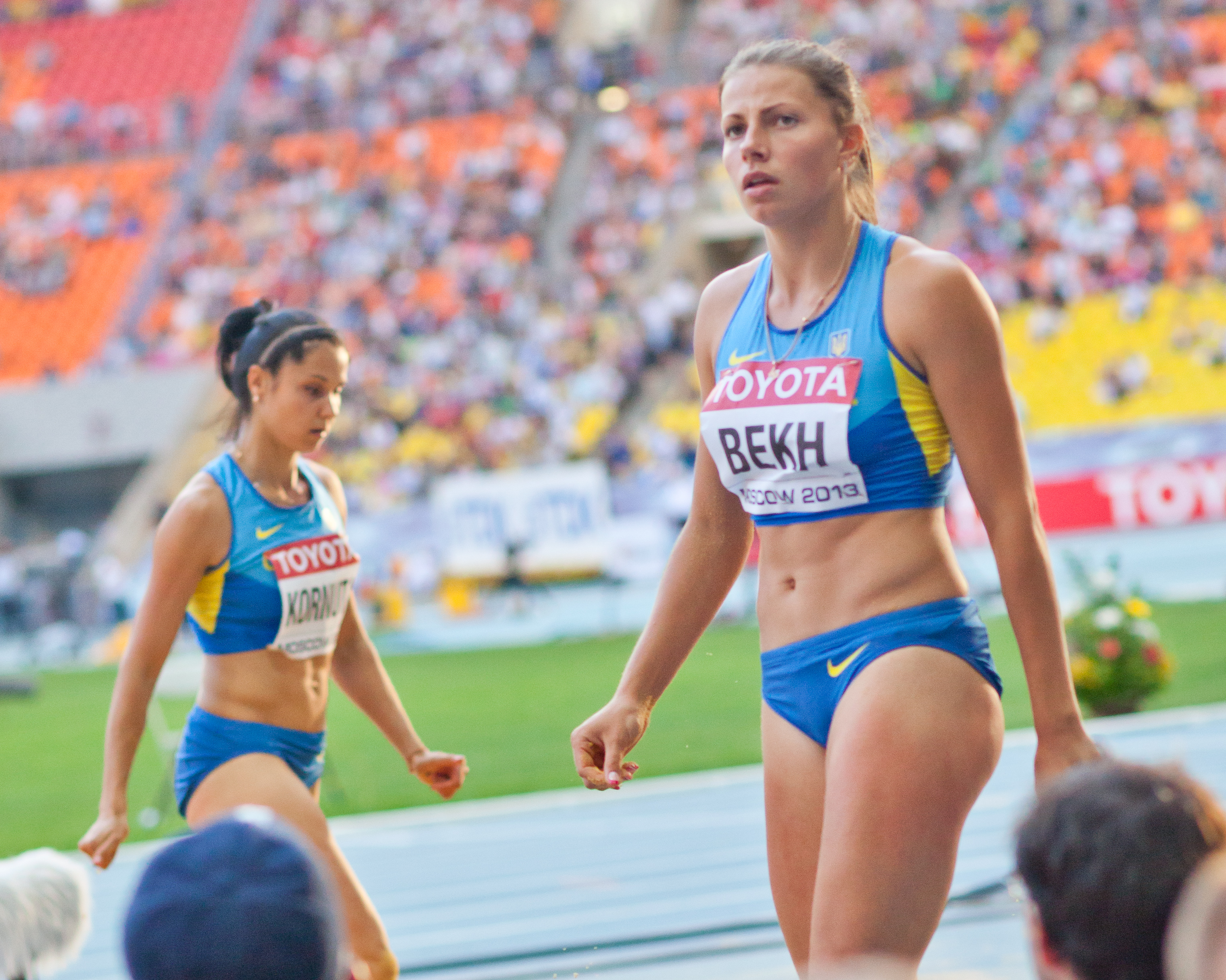 Maryna Bekh during 2013 World Championships in Athletics in Moscow.